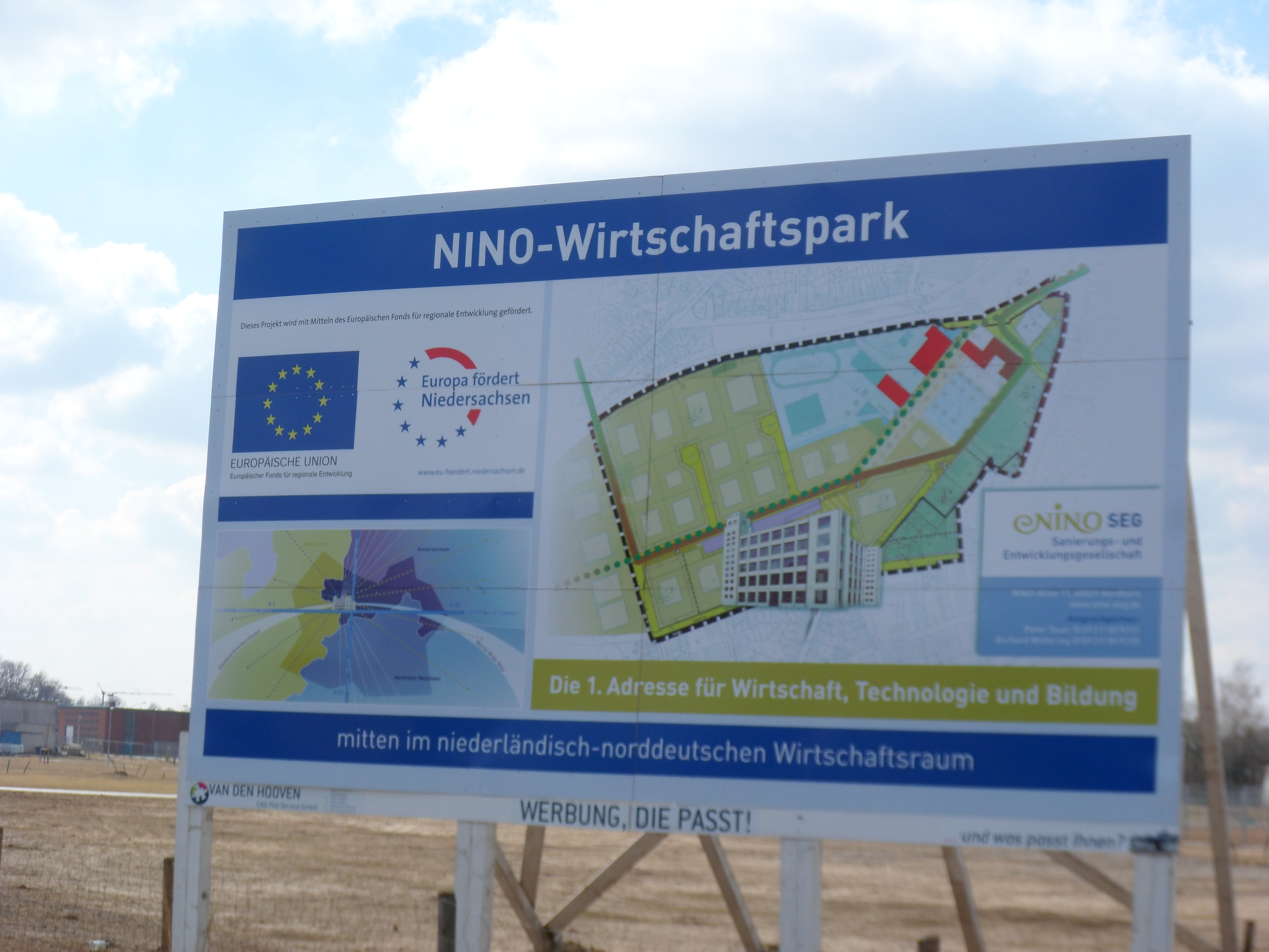 Nordhorn, Nino-Wirtschaftspark